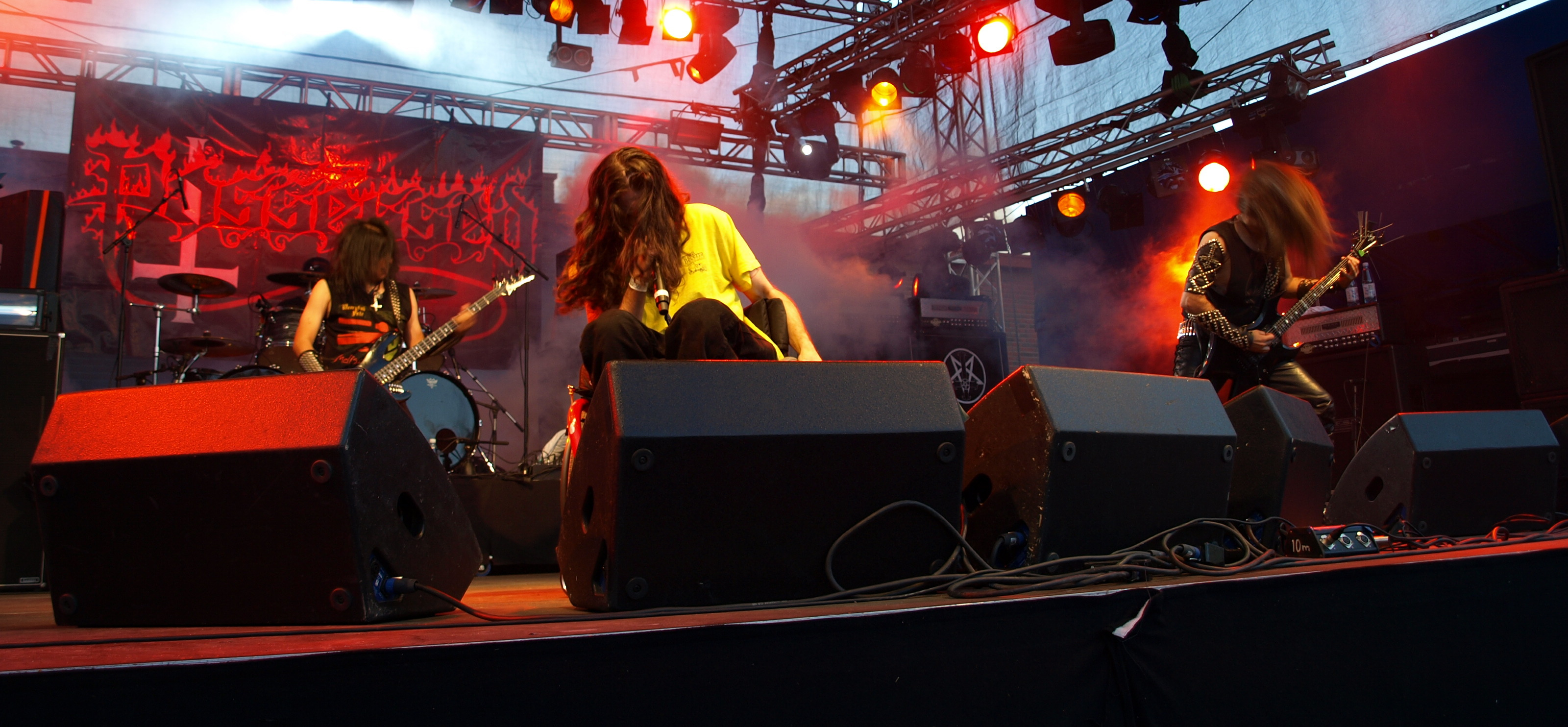 American death metal band Possessed live at Jalometalli 2008 in Oulu.